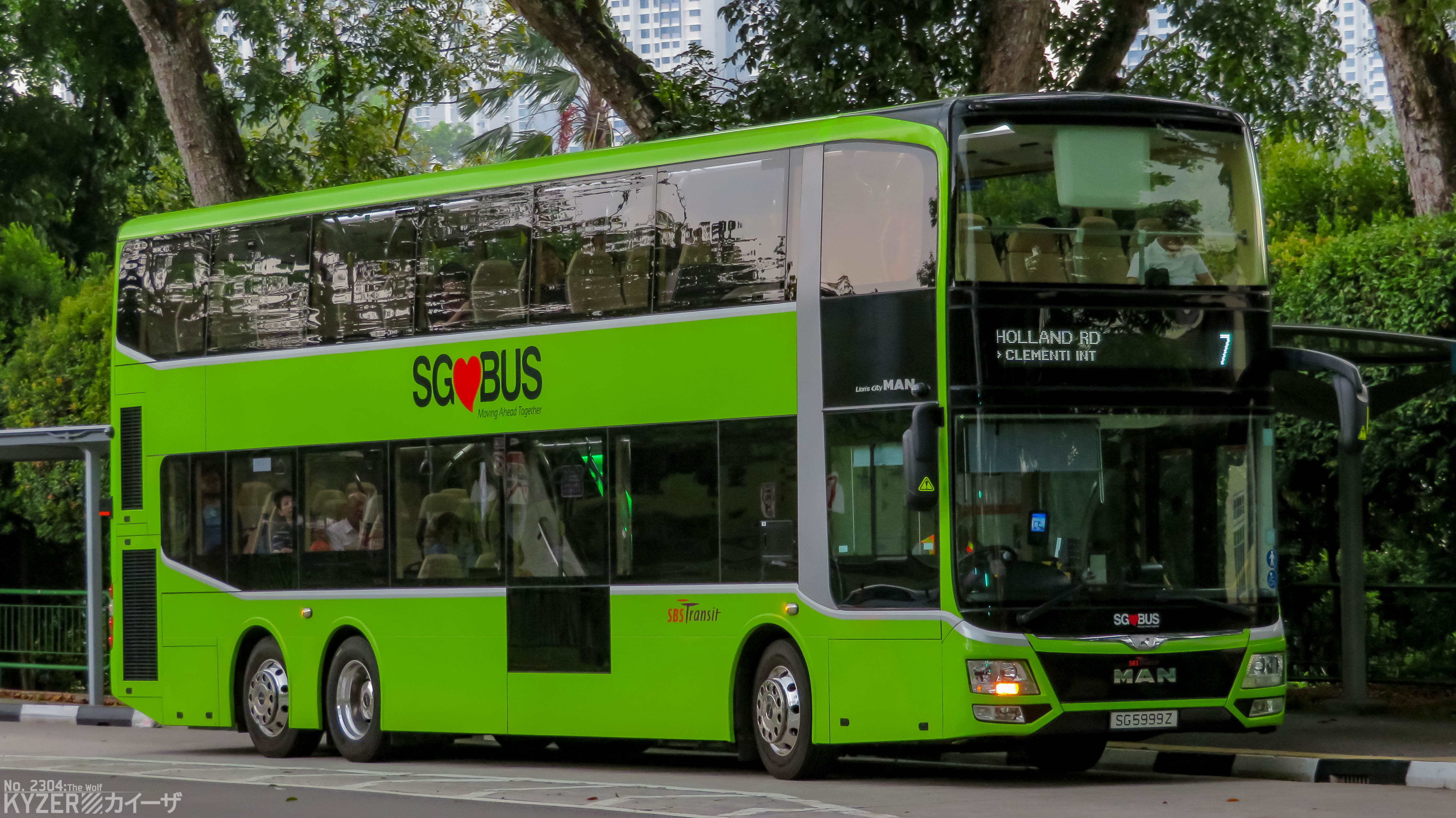 SG5999Z - 7